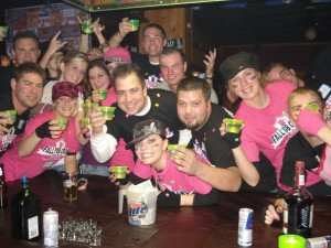 Photo from the 2008 Oshkosh Fall Pub Crawl.